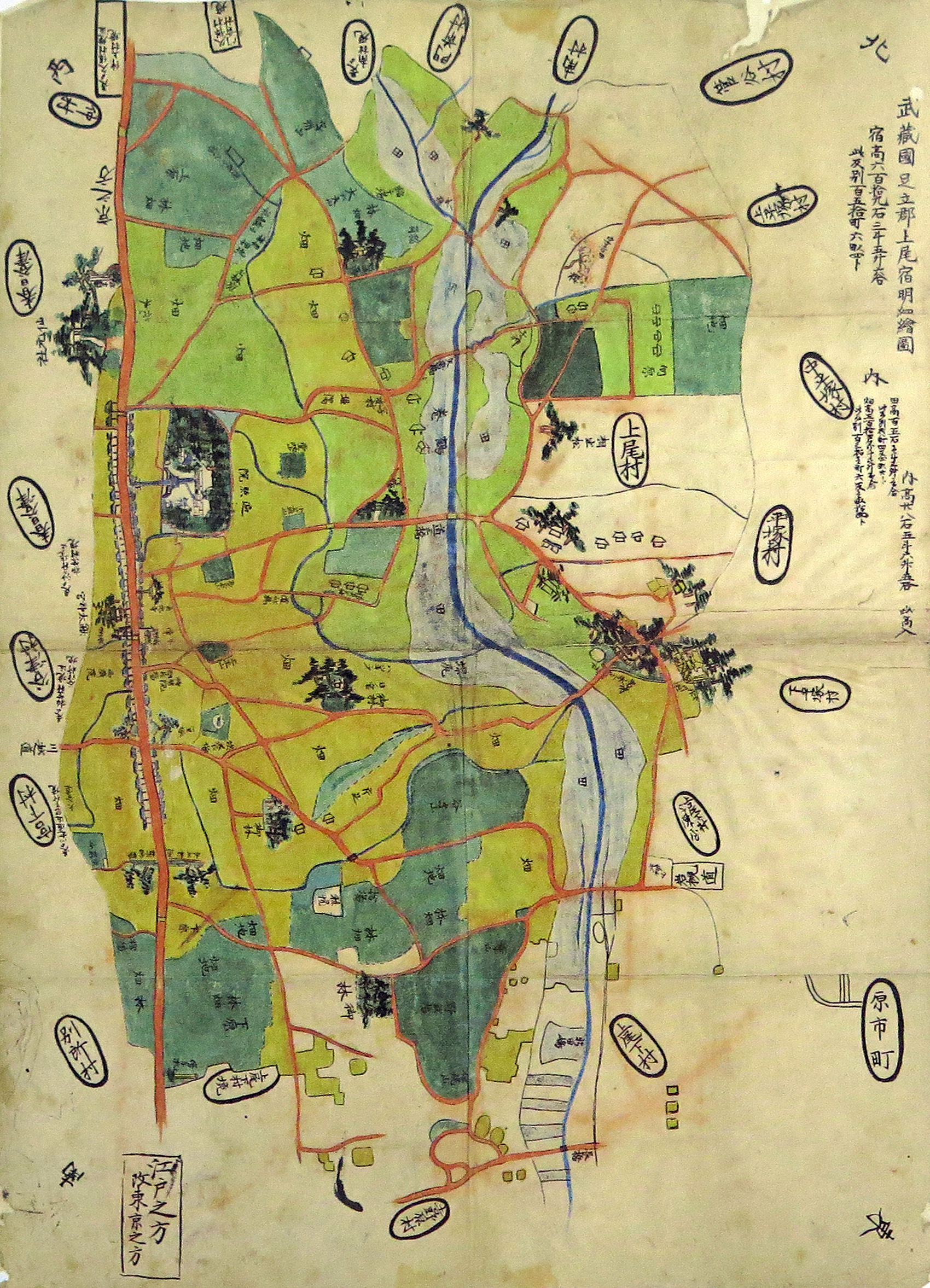 Ageo-shuku Detailed picture. Ageo City, Saitama prefecture, Japan